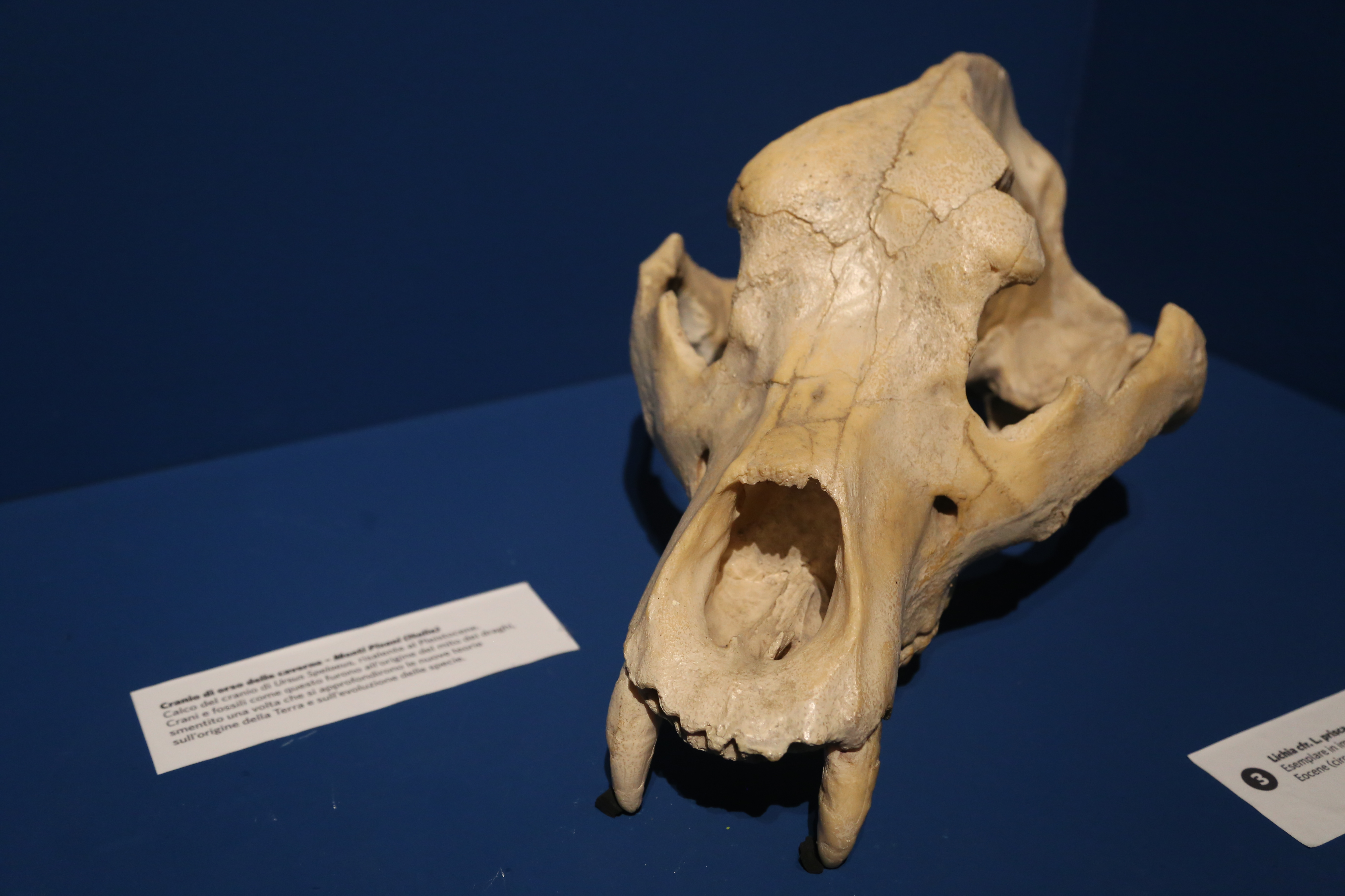 Cave Bear, skull